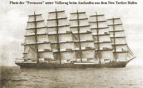 Full-rigged ship Preußen